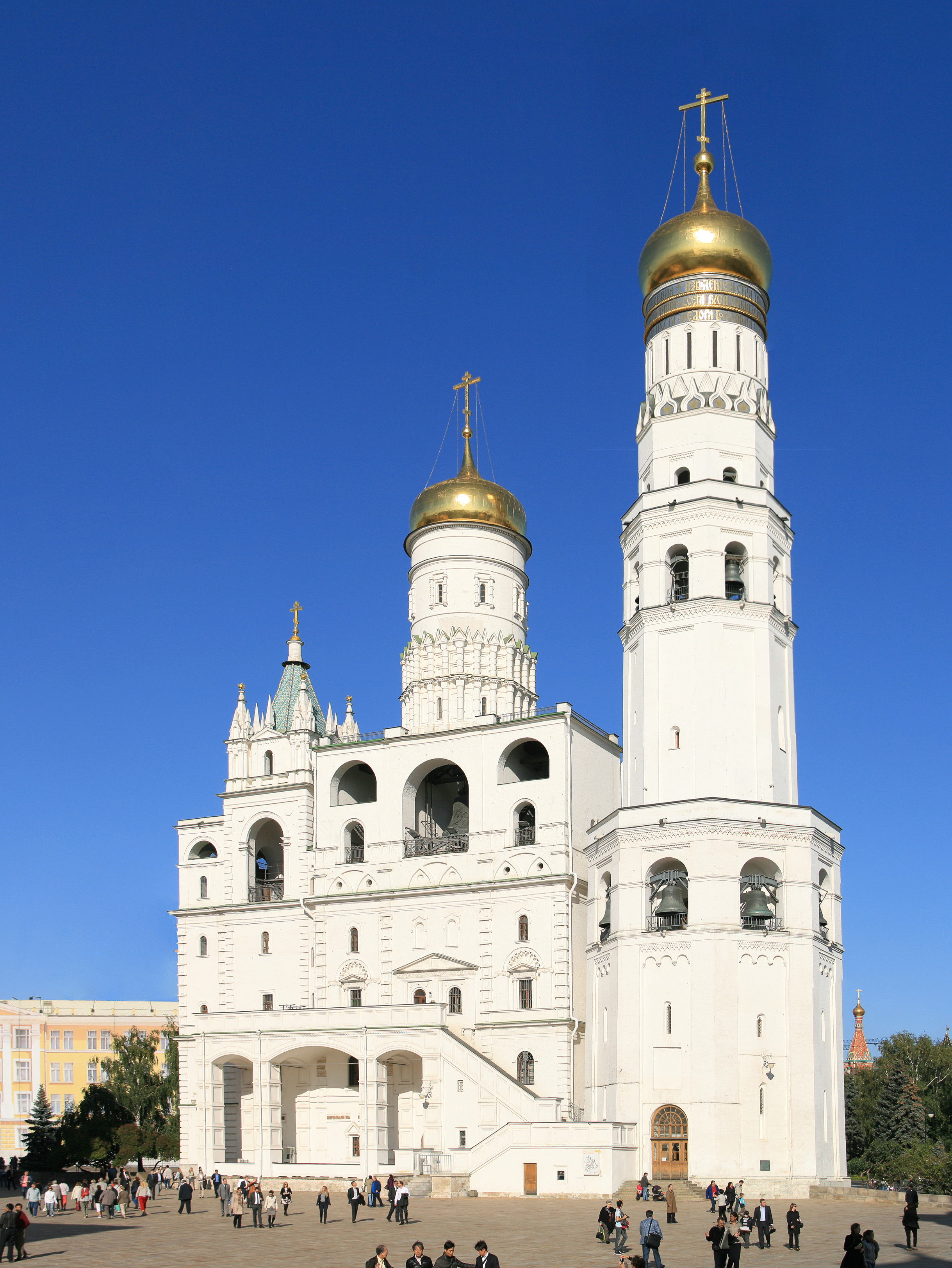 Ivan the Great Bell Tower